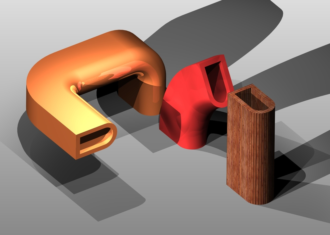 3 kinds of 3D generation. 3 modes d'extrusions